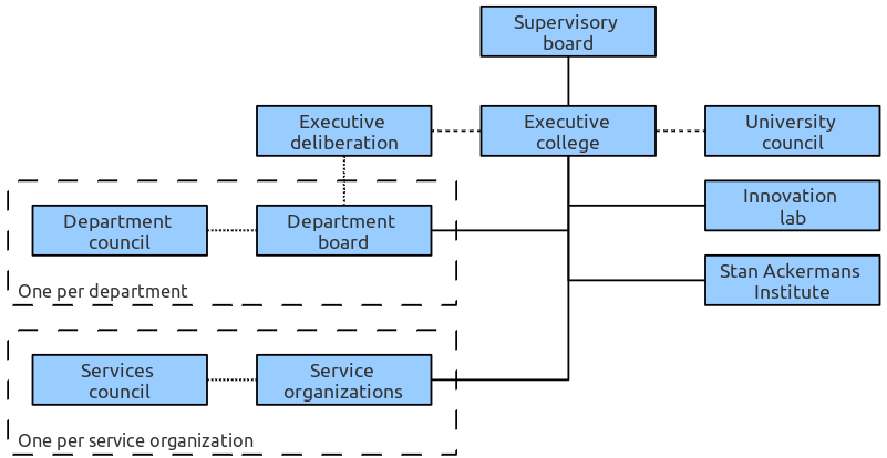 Organization chart of the management organization of the Eindhoven University of Technology. Derived from the description at .